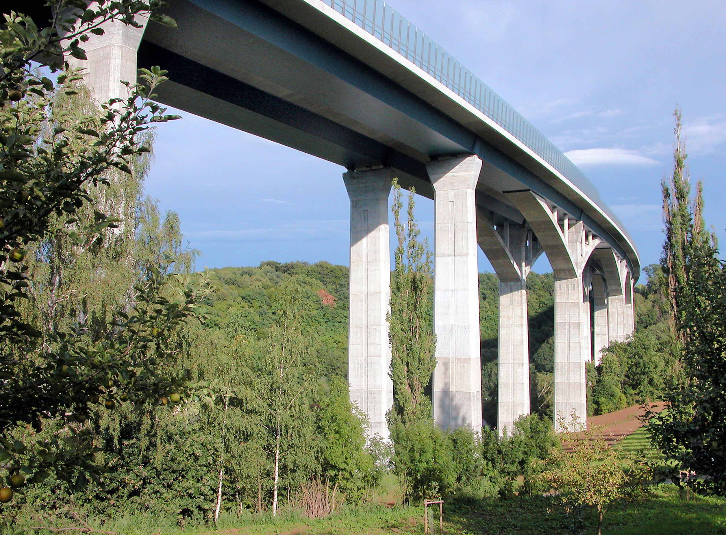 20.08.2006 01257 Dresden-Lockwitz: Die Lockwitztalbrücke der Autobahn A 17 von Dresden nach Prag. Baubeginn war im Sommer 2002. Am 13.12.2005 wurde sie eröffnet. Sicht nach Osten. [DSCN11272.TIF]20060820020DR.JPG(c)Blobelt